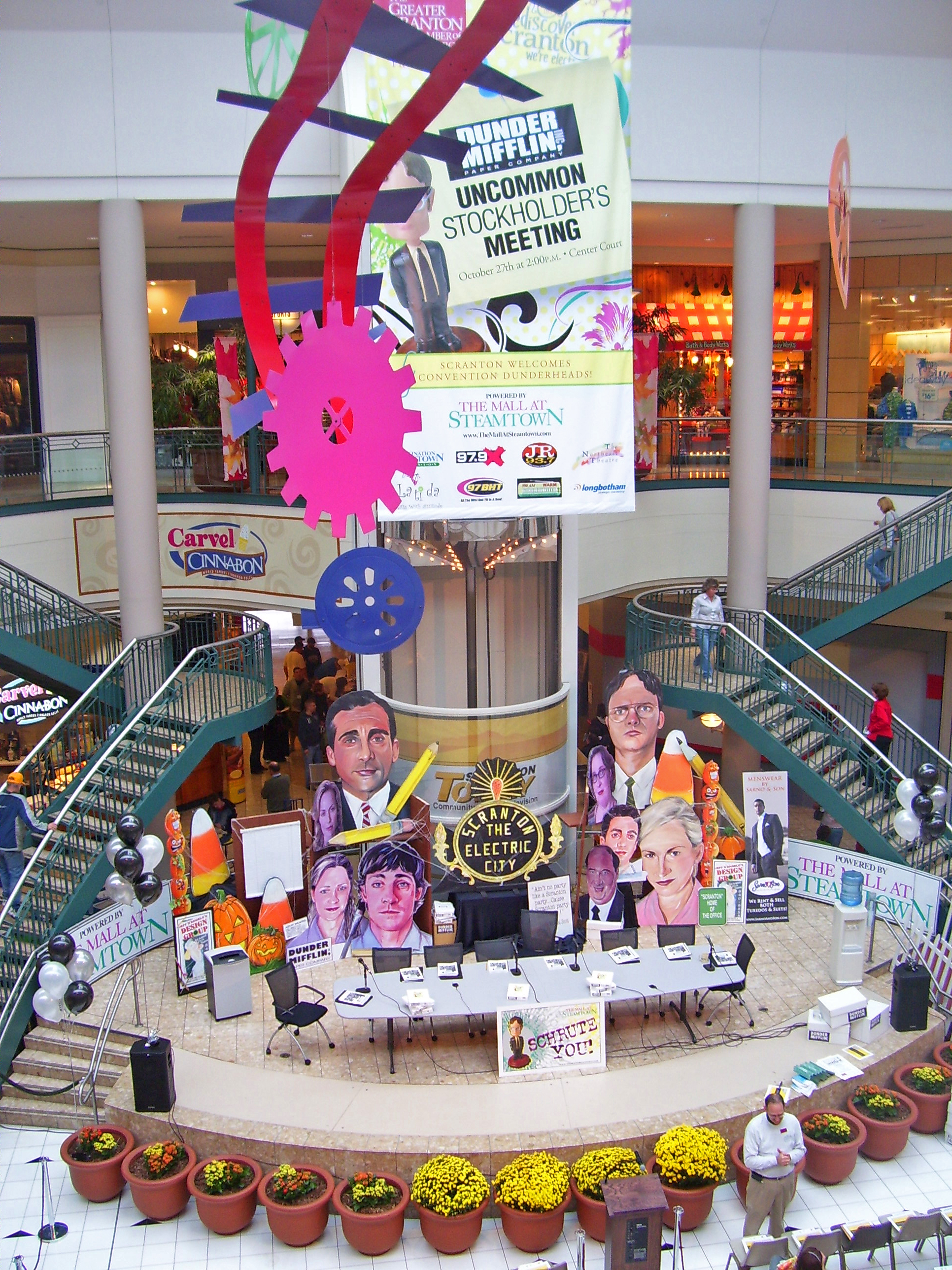 Display in atrium of Mall at Steamtown, Scranton, PA, USA, for first The Office convention